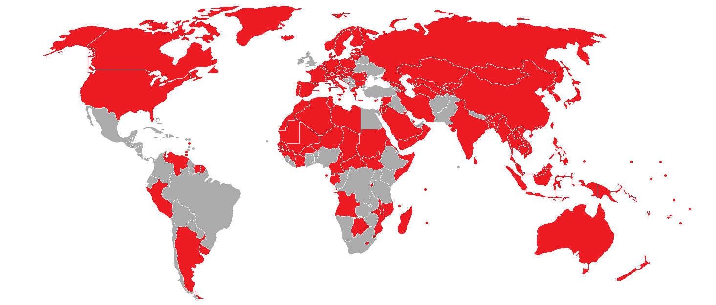 Wuhan coronavirus outbreak travel restrictions. NOTE: From User:The Account 1: "This map is about travel restrictions to Chinese citizens or people who have been to China."